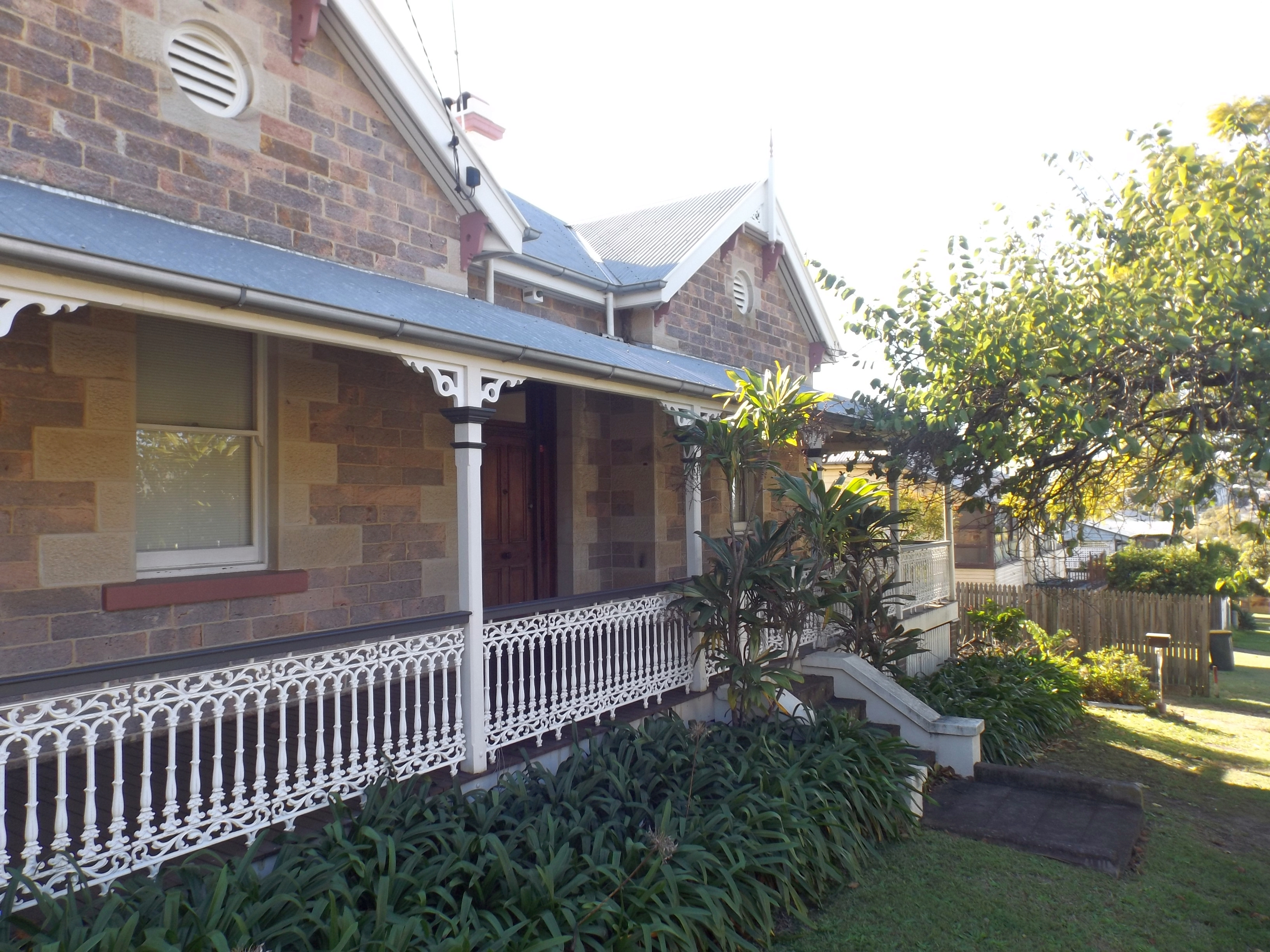 Photo of the front of Craigellachie at Windsor, Brisbane, Queensland, Australia.